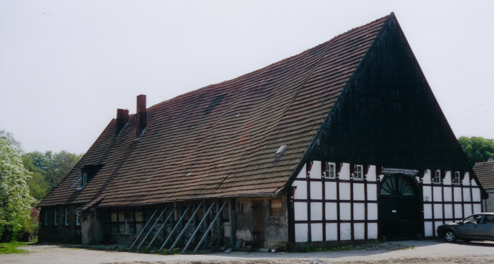 Brenninckhof, an old farmhouse, in Mettingen-Wiehe, Kreis Steinfurt, North Rhine-Westphalia, Germany.